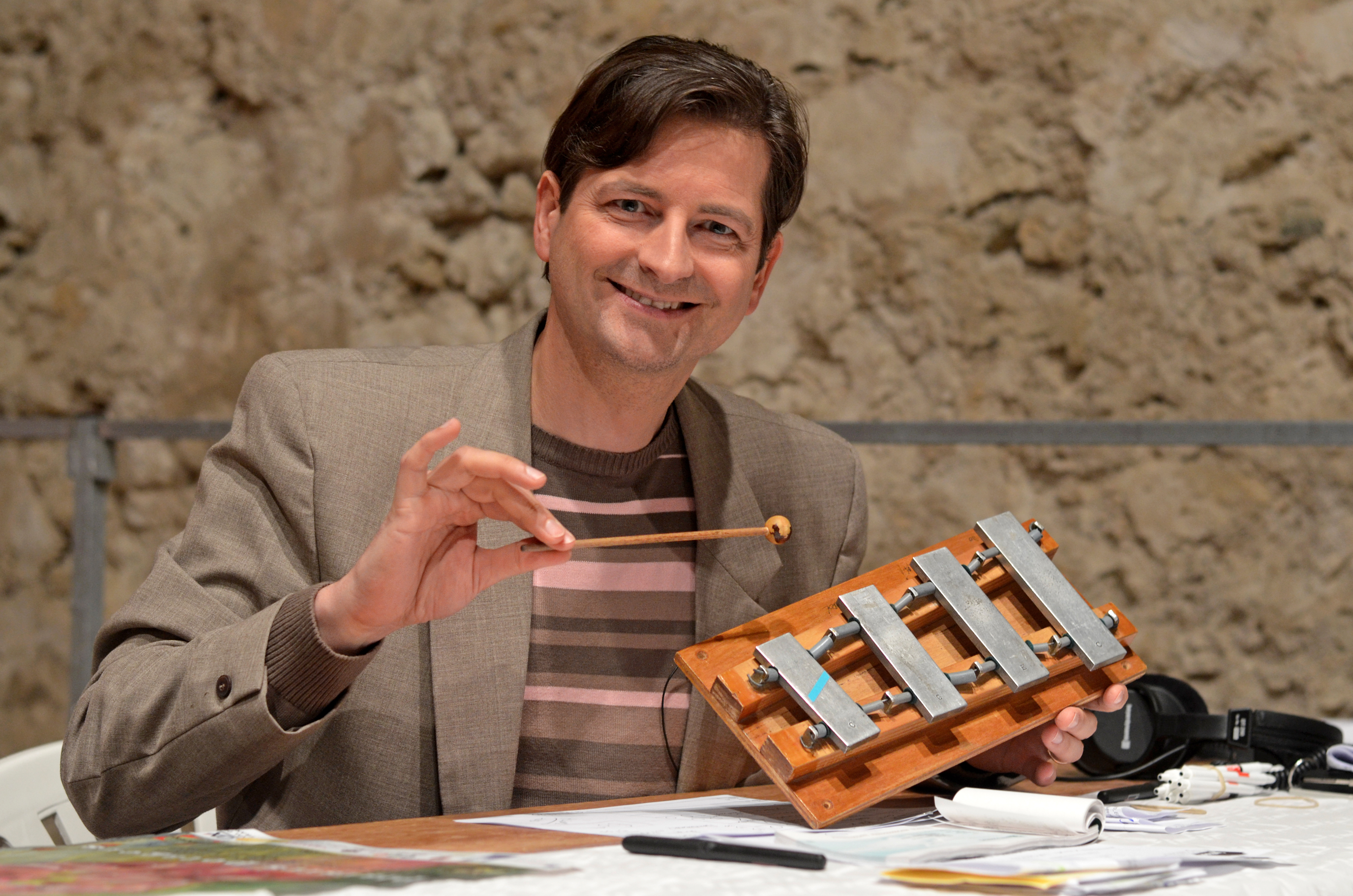 Yann Pailleret, French radiophonic producer (Le Jeu des 1000 euros) on France Inter, after a recording in Couture-sur-Loir (France).